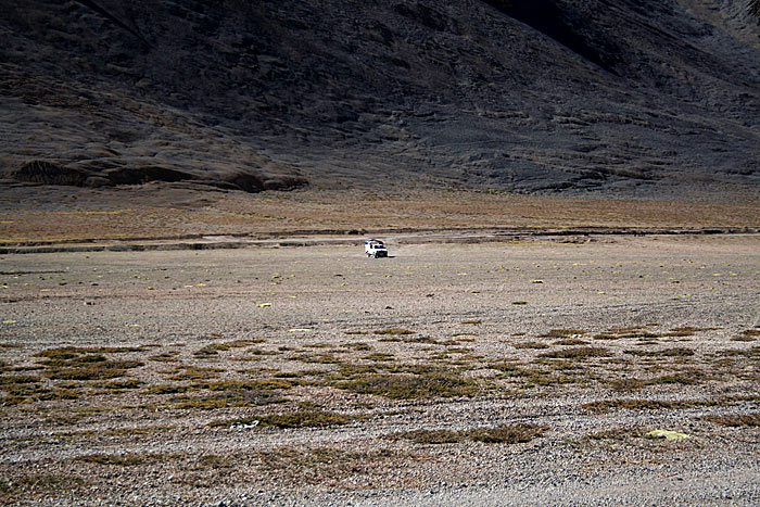 That is a four wheeler vehicle taken with a 300mm telephoto lens. Now you maybe get the idea of how vast the expanse is and how high the mountains were.Shot by Sundeep Gajjar in The Great Indian Roadtrip